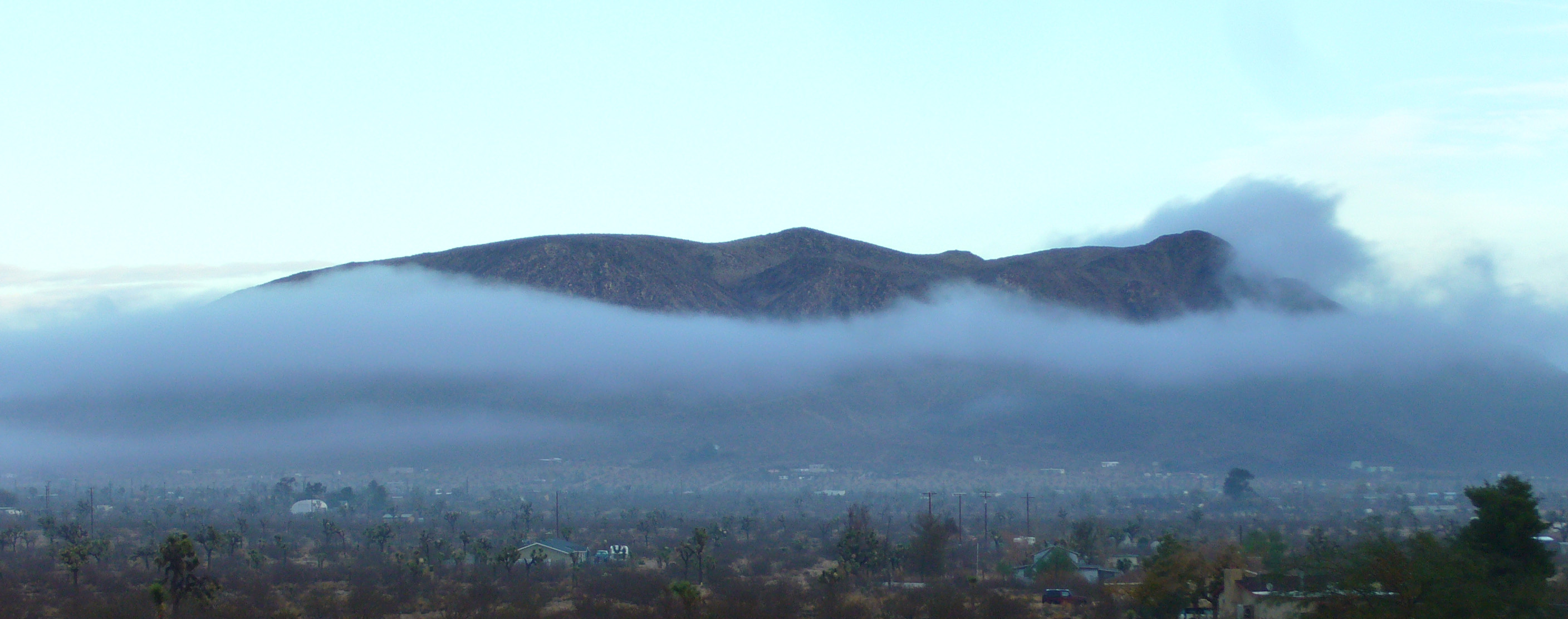 Fog descends upon a High Desert community.